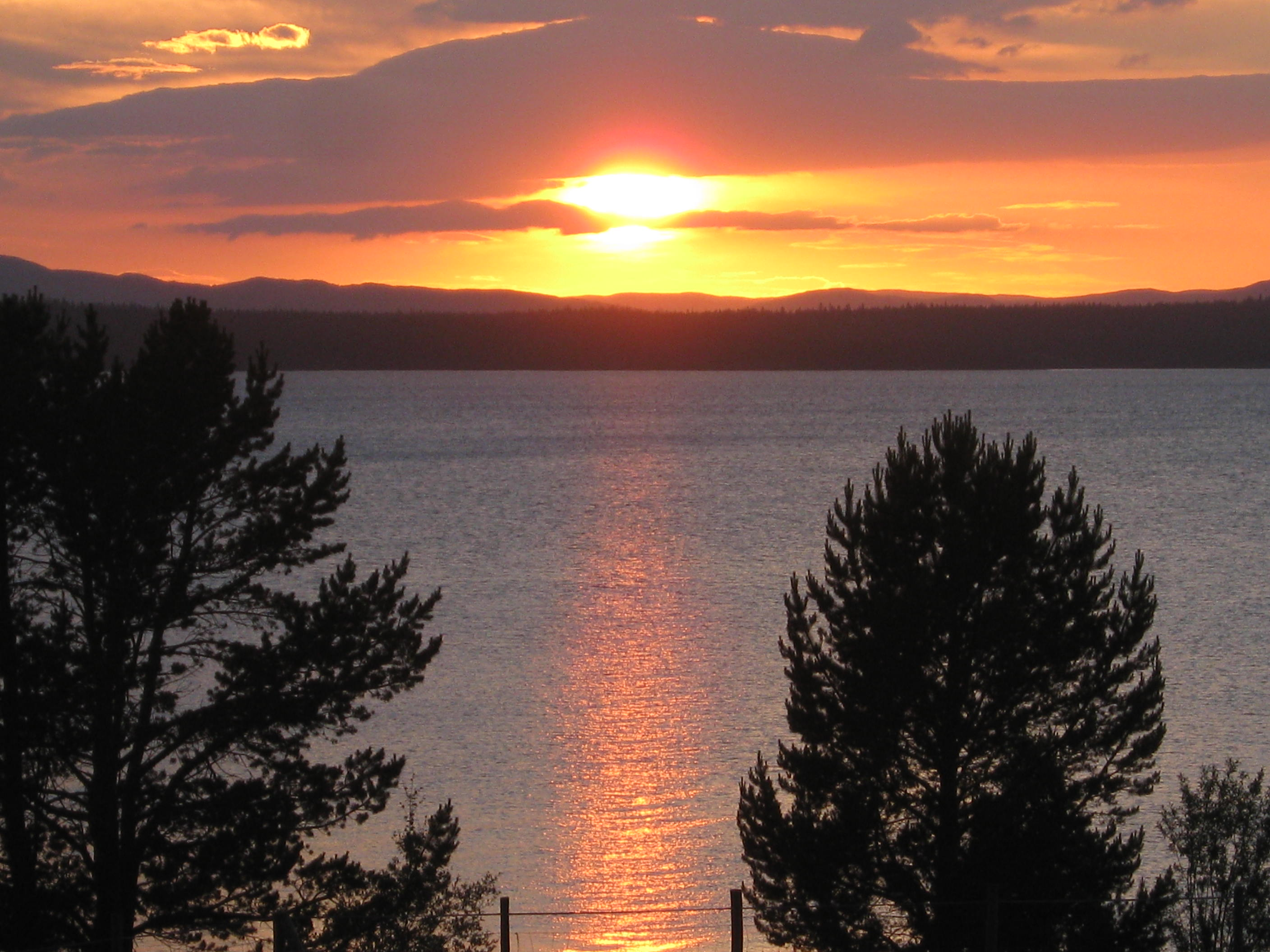 Femund Lake near Elgå, Norway